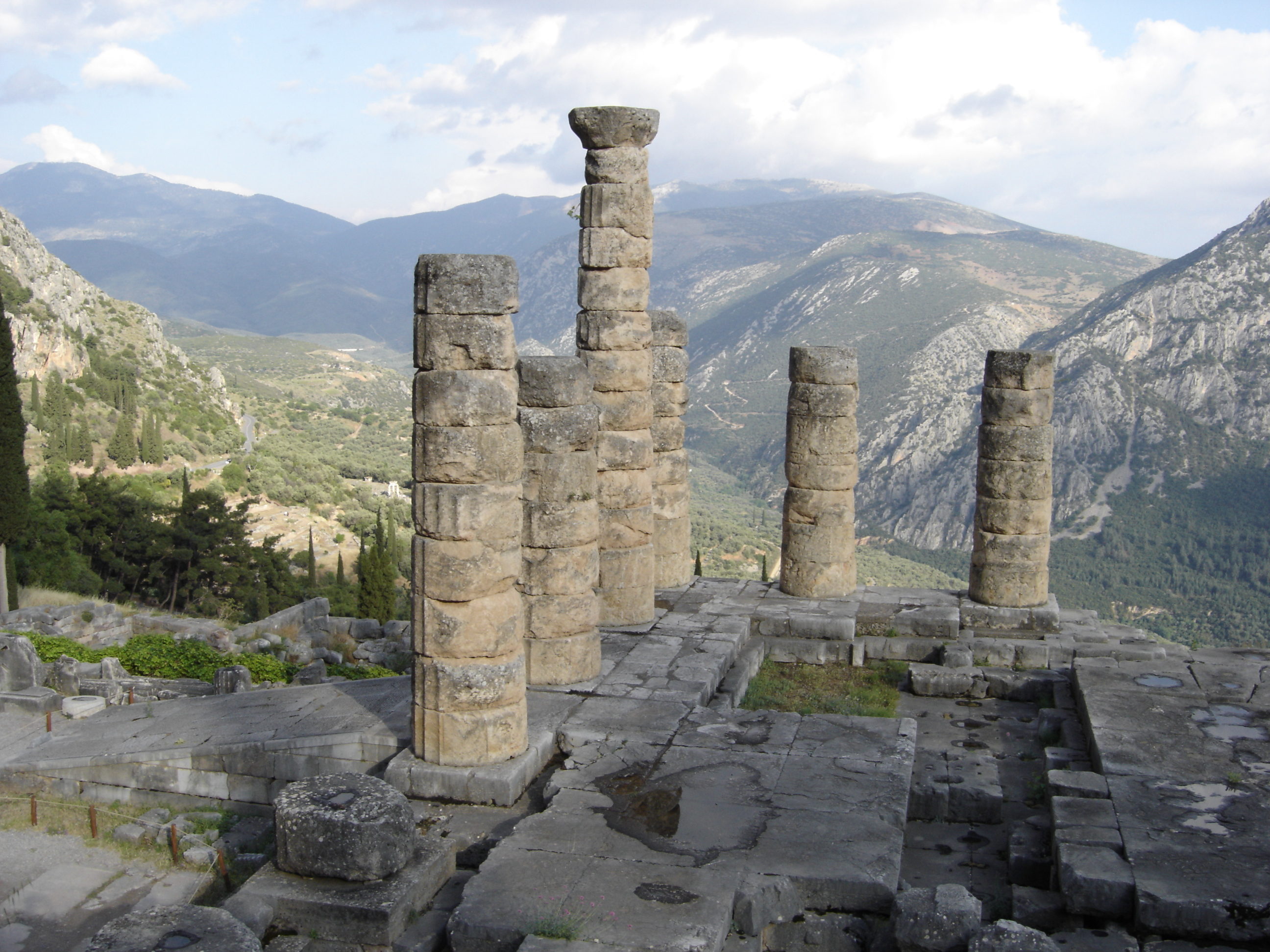 The Temple to Apollo. This is where the priestesses of the Oracle did their thang.